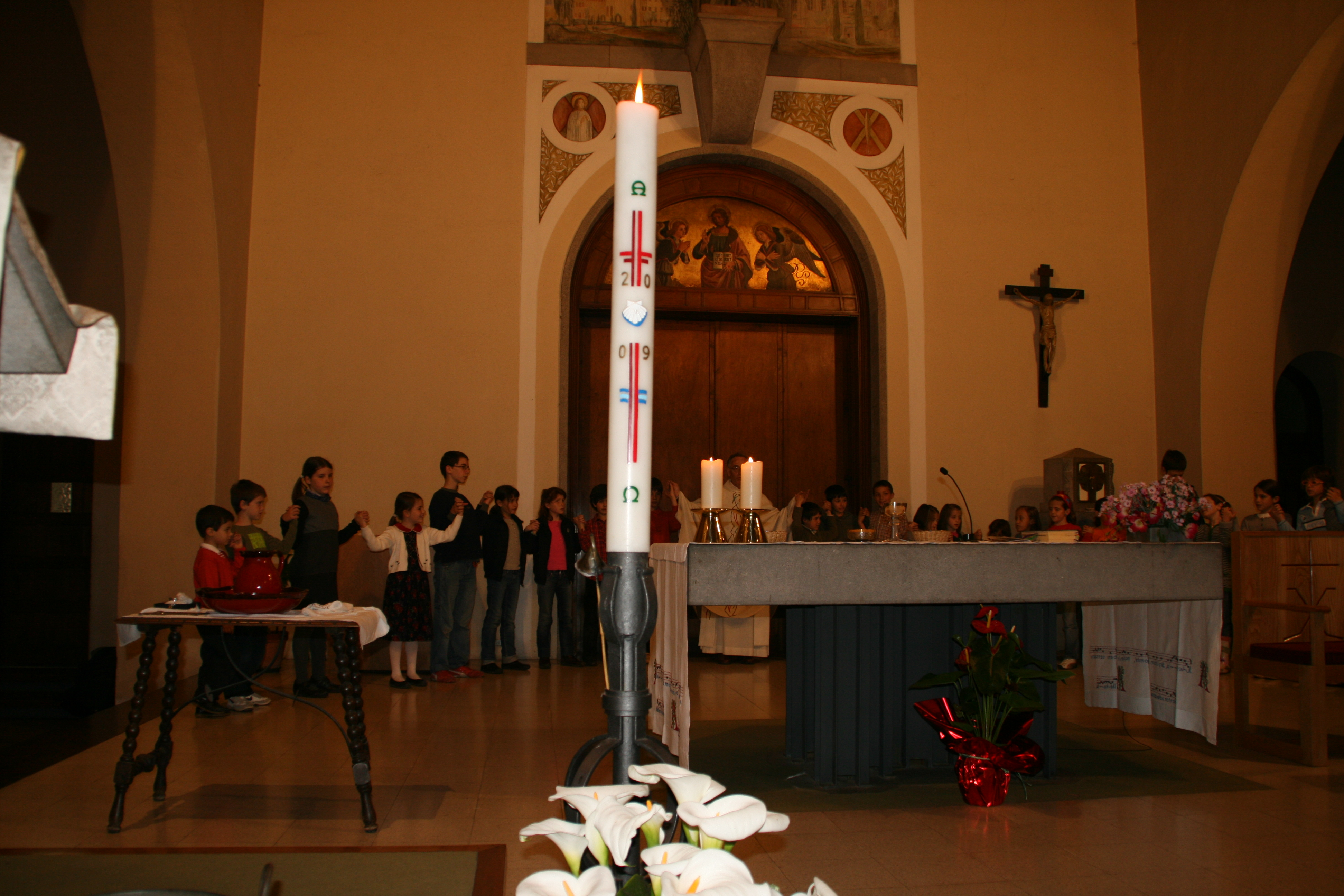 Caputxins Sarrià - Church interior (2009)